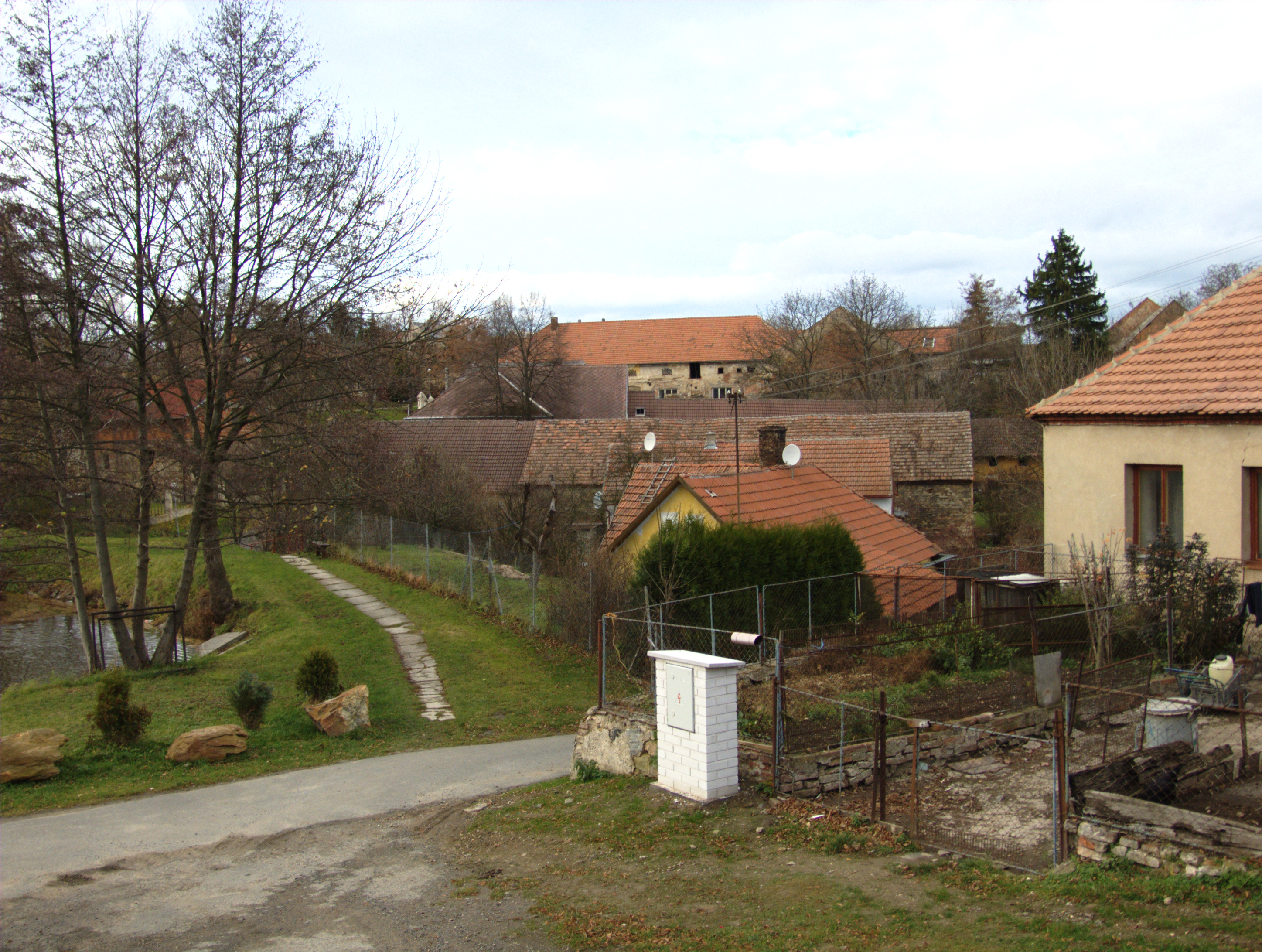 Central part of the town of Vrbčany, Central Bohemian Region, CZ This photograph was taken within the scope of the third year of the 'Czech Municipalities Photographs' grant.